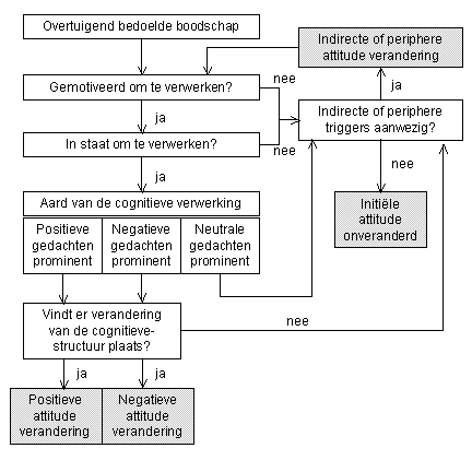 Description Bewerking van ELM model Date27 October 2006SourceBewerking van Communication and Persuasion: Central Routes to Attitude Change by R.E. Petty en J.T. Cacioppo, 1986AuthorFrederik BeukPermission (Reusing this file) GNU Other versions geen Bewerking van ELM model